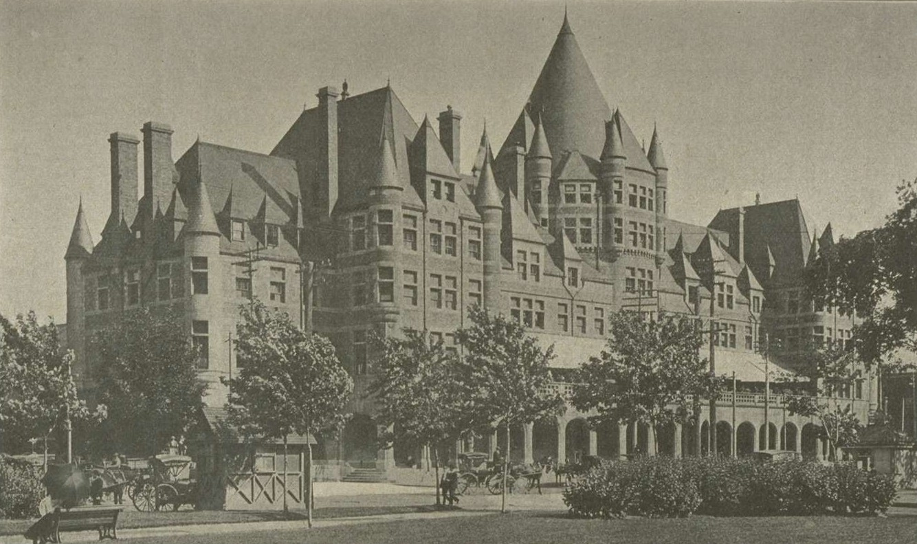 Place Viger, Montreal, Canada, circa. 1900, Blibliothèque nationale de Québec, copyright expired . Transferred from en.wikipedia to Commons. - 2006-01-29 (original upload date). Original uploader was Skeezix1000 at en.wikipedia